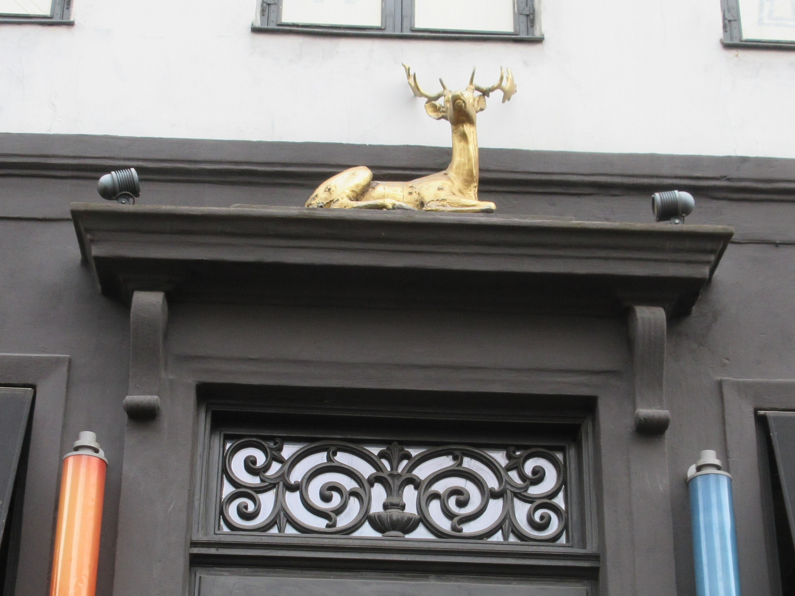 Gilded deer figure above the main entrance to the former Hjorte Apotek at Gothersgade 35 in Copenhagen, Denmark